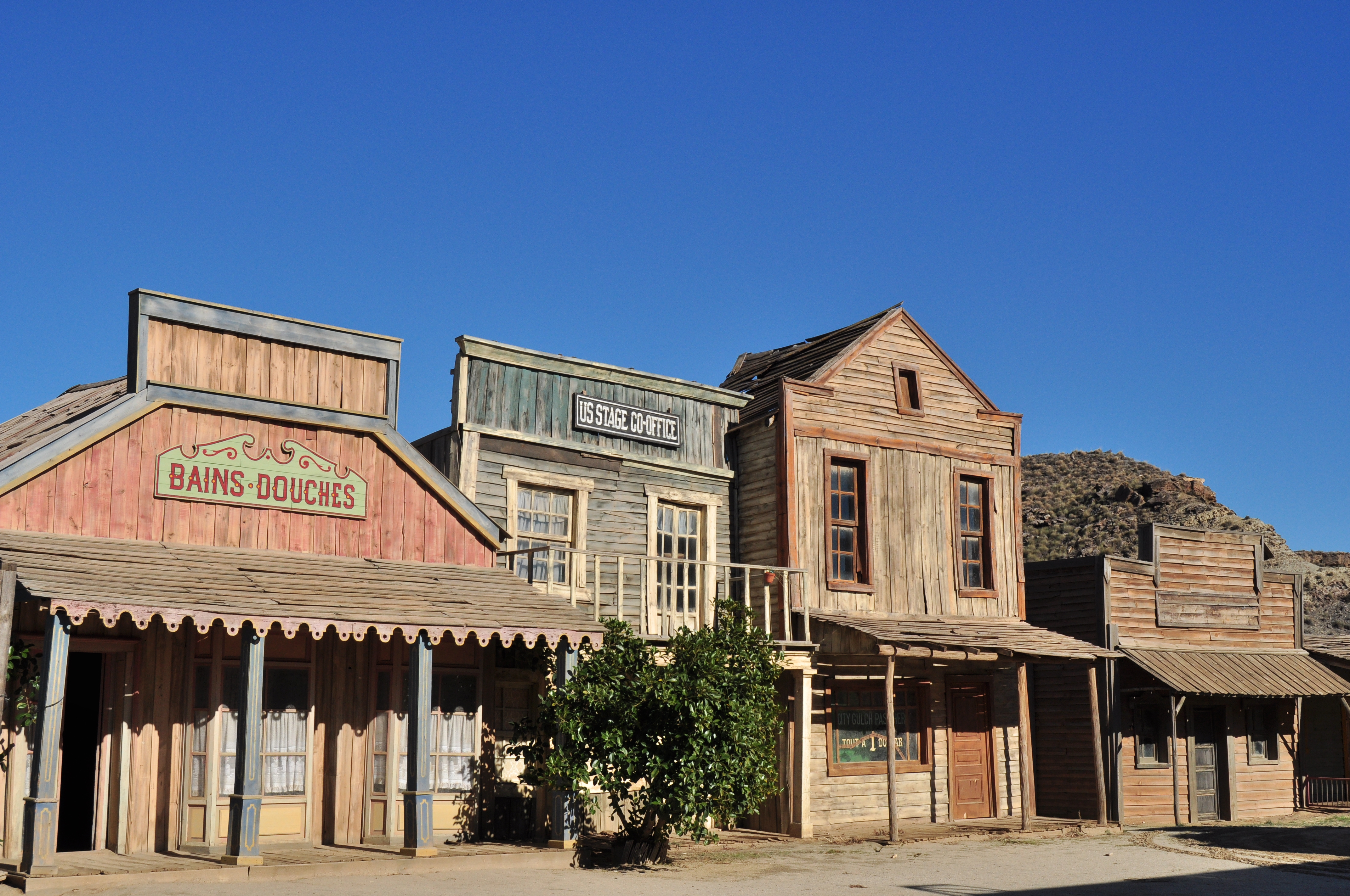 Also known as Texas Hollywood.